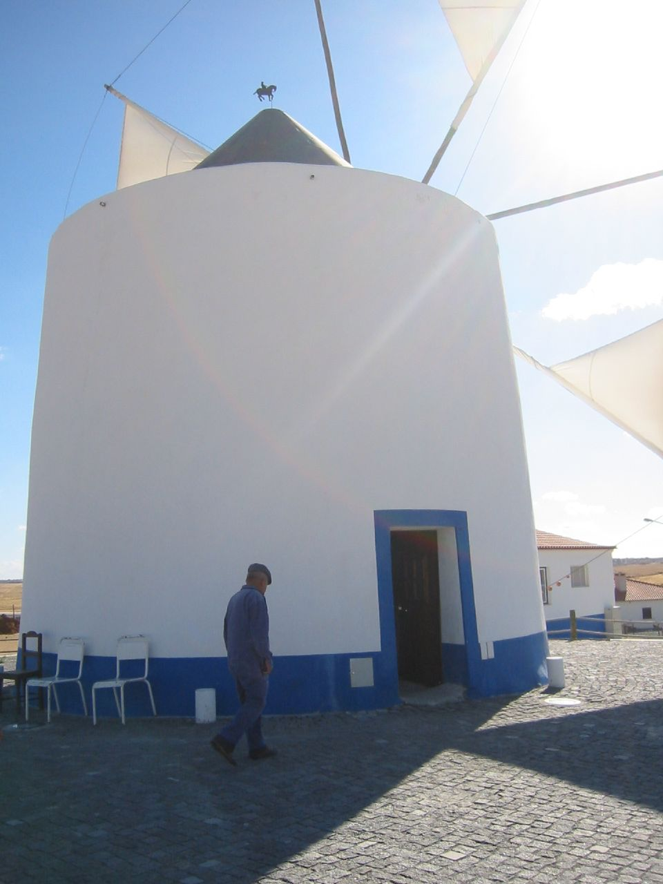 Wind Mill of Castro Verde